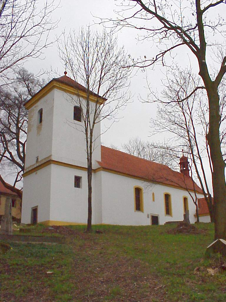 SS Peter and Paul church in Žežice (part of Chuderov municipality, Ústí nad Labem District, Czech Republic).